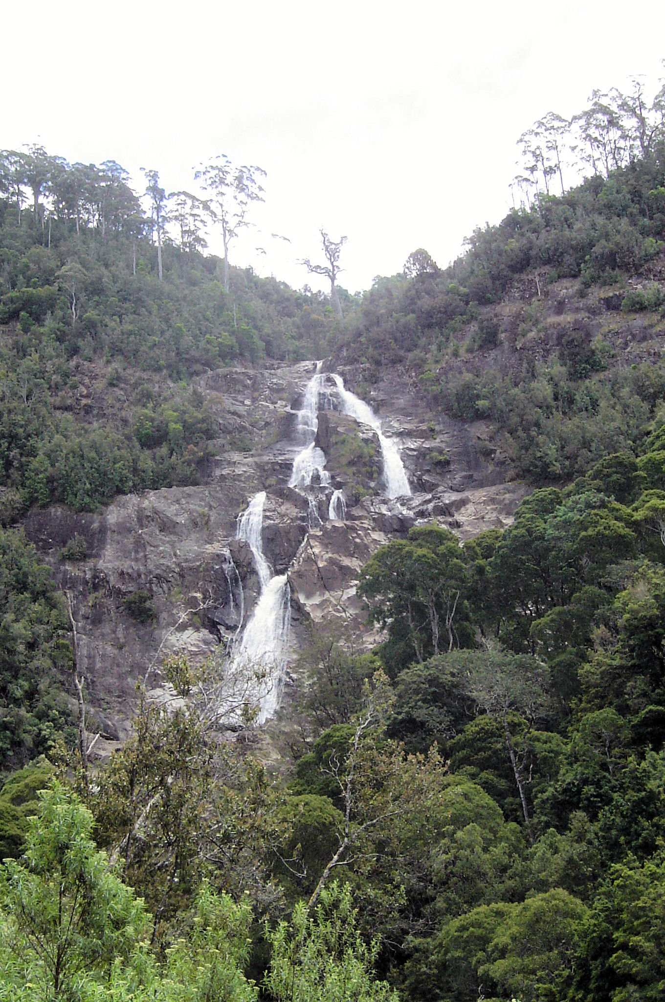 St Columbia Falls